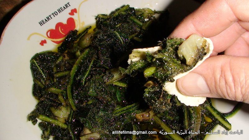 نباتات برية سورية تؤكل